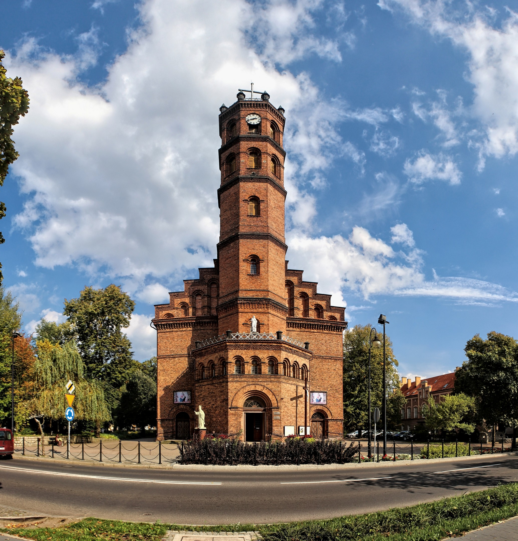 Saint Anthony of Padua church in Nowa Sól